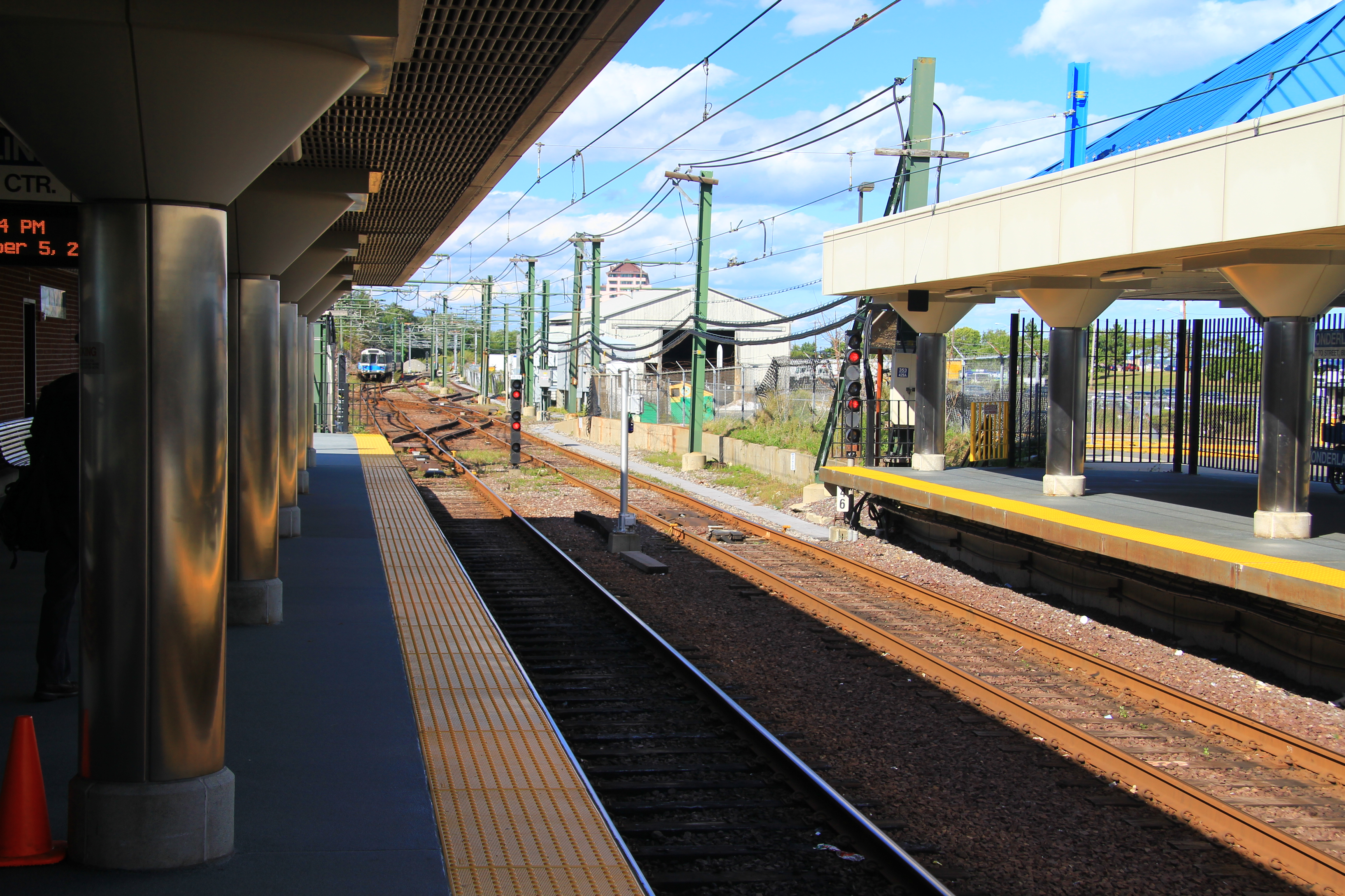 On the inbound platform of Wonderland watching a train switch directions